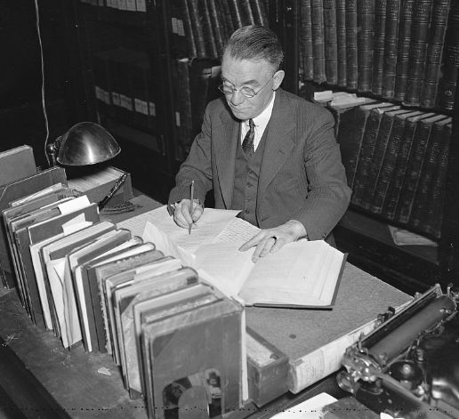 Photo of John Clement Fitzpatrick working on the George Washington papers at the Library of Congress in 1937